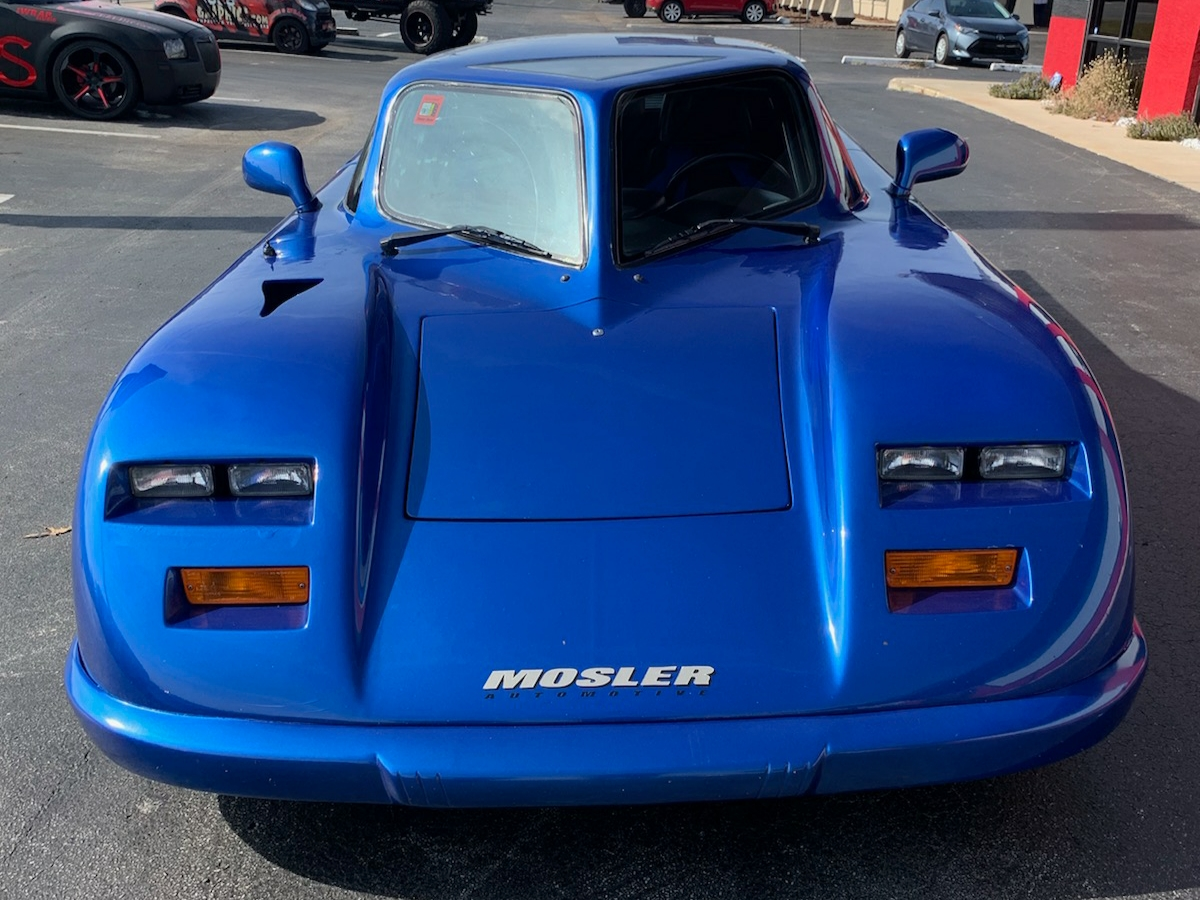 Mosler raptor pictures